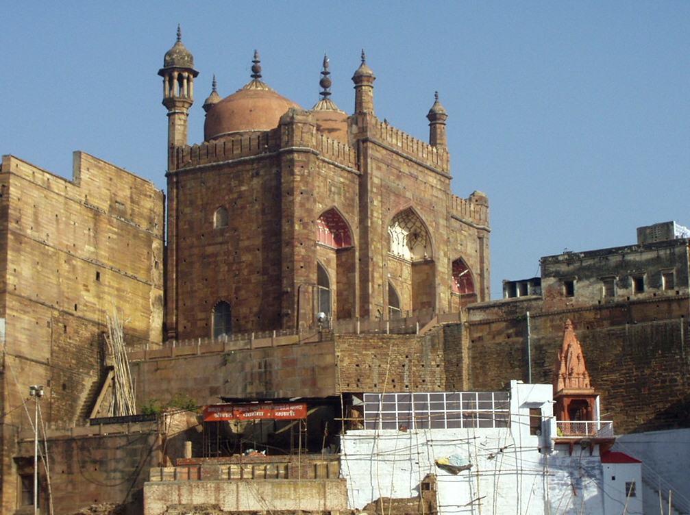 Aurangzeb Mosque (also known as Alamgir Mosque), by the Ganges river, Varanasi. Built by Mughal Emperor, Aurangzeb, who ruled 1658 - 1707 CE, under the title of Alamgir I, hence the name of the mosque.